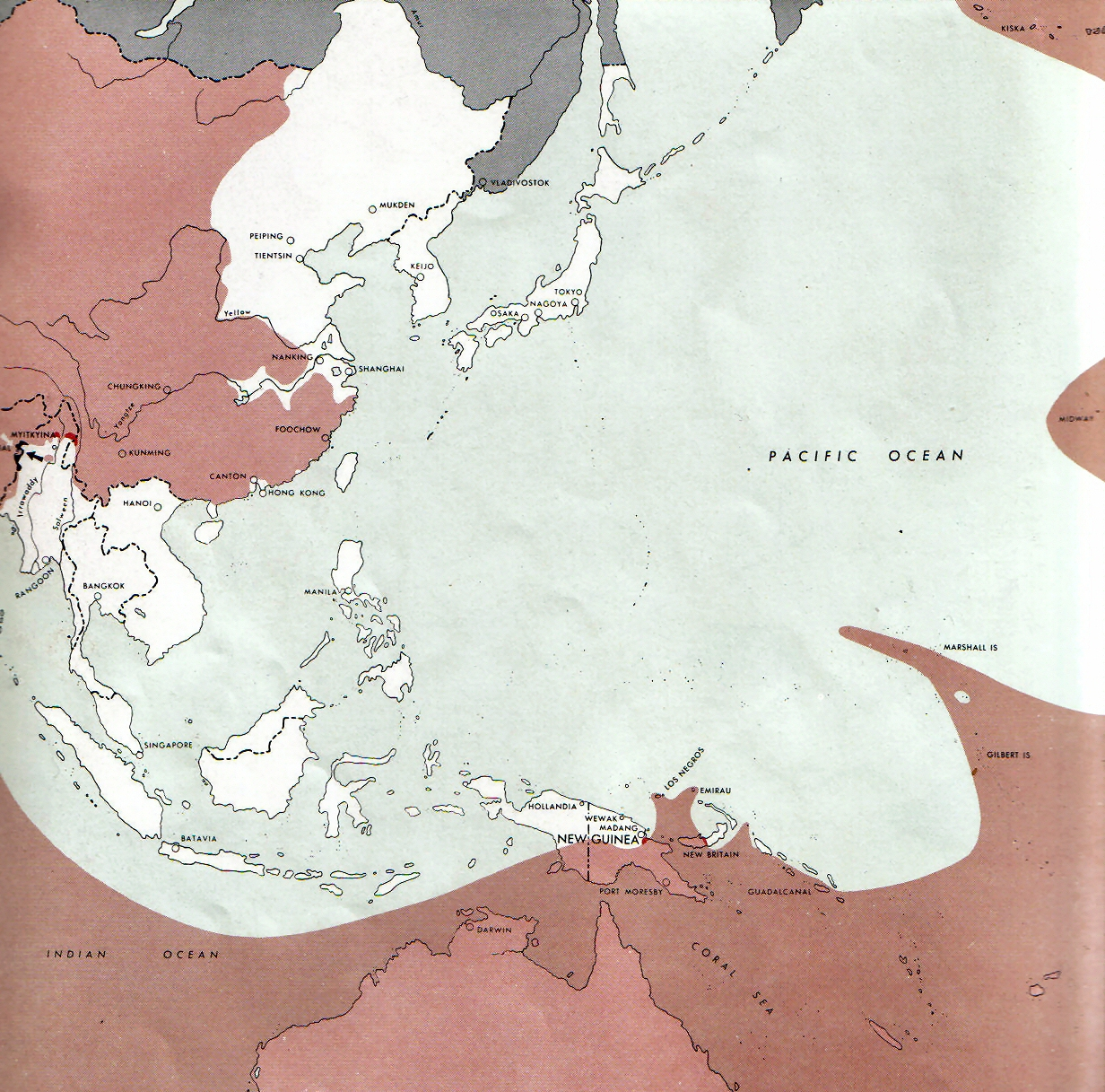 Map of the front against Japan as of 15 Apr 1944: This map is taken from the source "Atlas of the World Battle Fronts in Semimonthly Phases to August 15th 1945: Supplement to The Biennial report of The Chief of Staff of the United States Army July 1, 1943 to June 30 1945 To the Secretary of War". (See Cover, Forward and Map details)